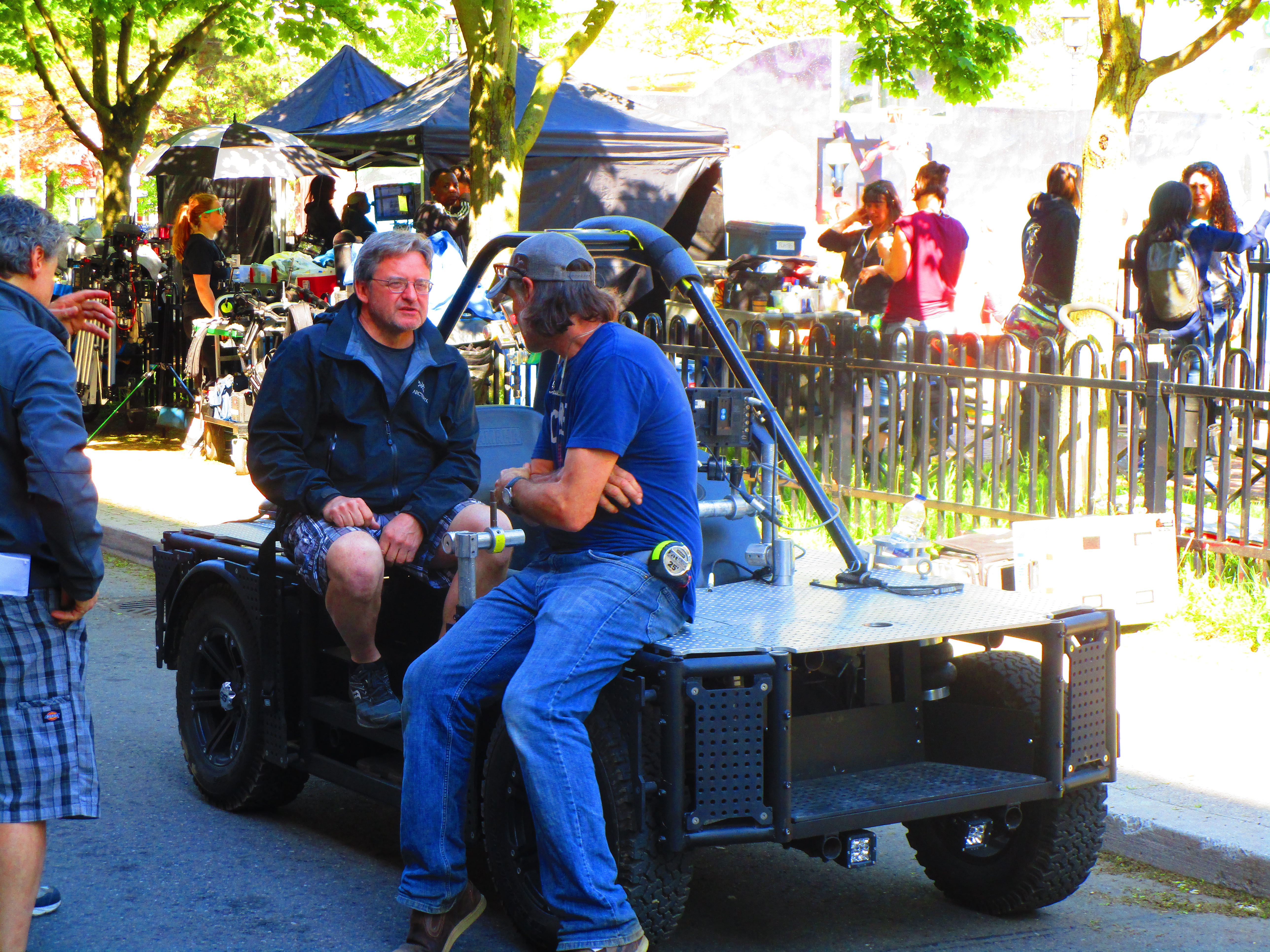 Film crew for the TV series 'Condor' makes Toronto look like Washington, DC, on 2017 05 30 -ah